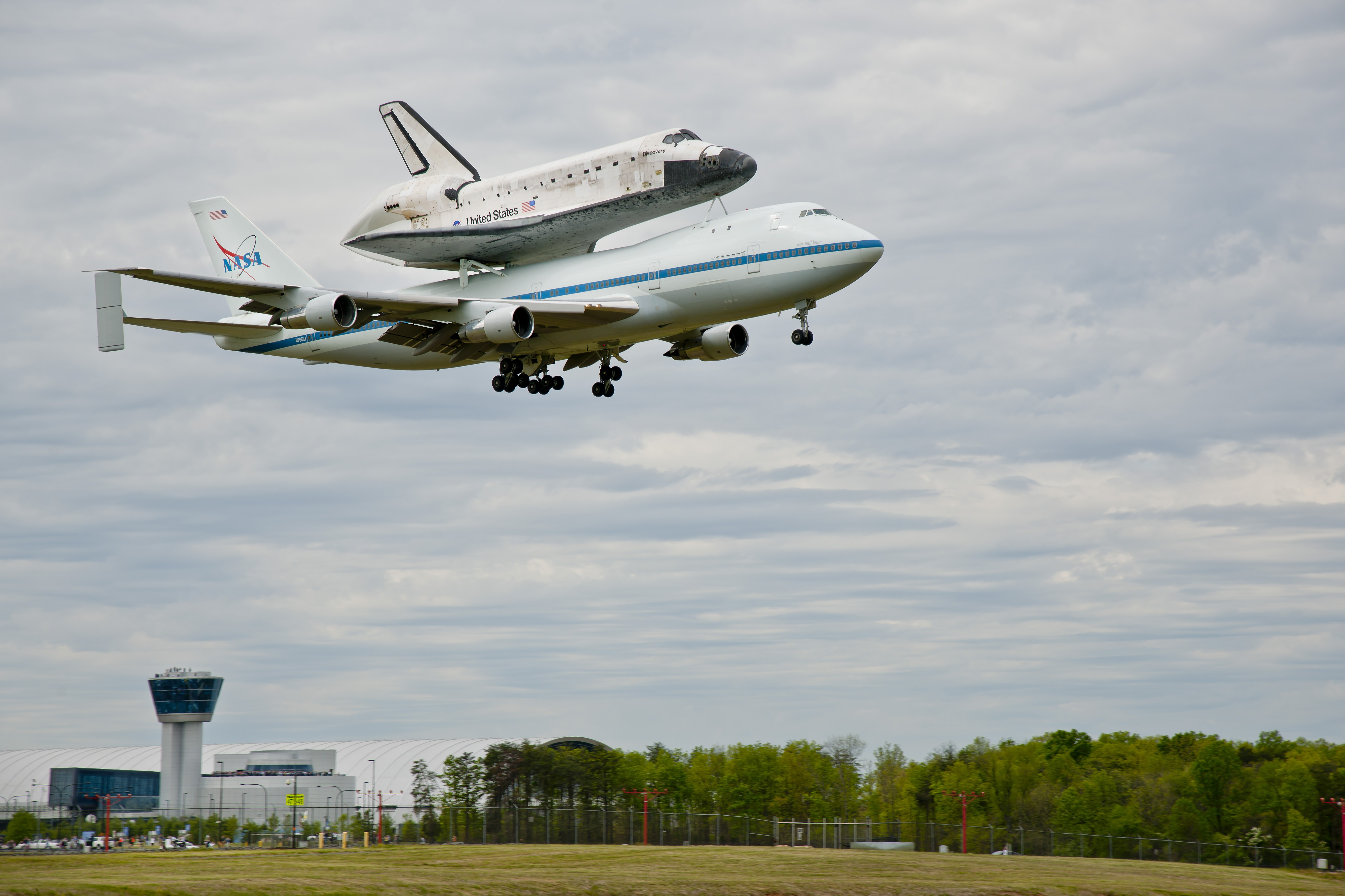 View of Space Shuttle Discovery (OV-103) (A20120325000), mated to a Boeing Model 747-100 NASA Shuttle Carrier aircraft, in flight over the National Air and Space Museum's Steven F. Udvar-Hazy Center, April 17, 2012.